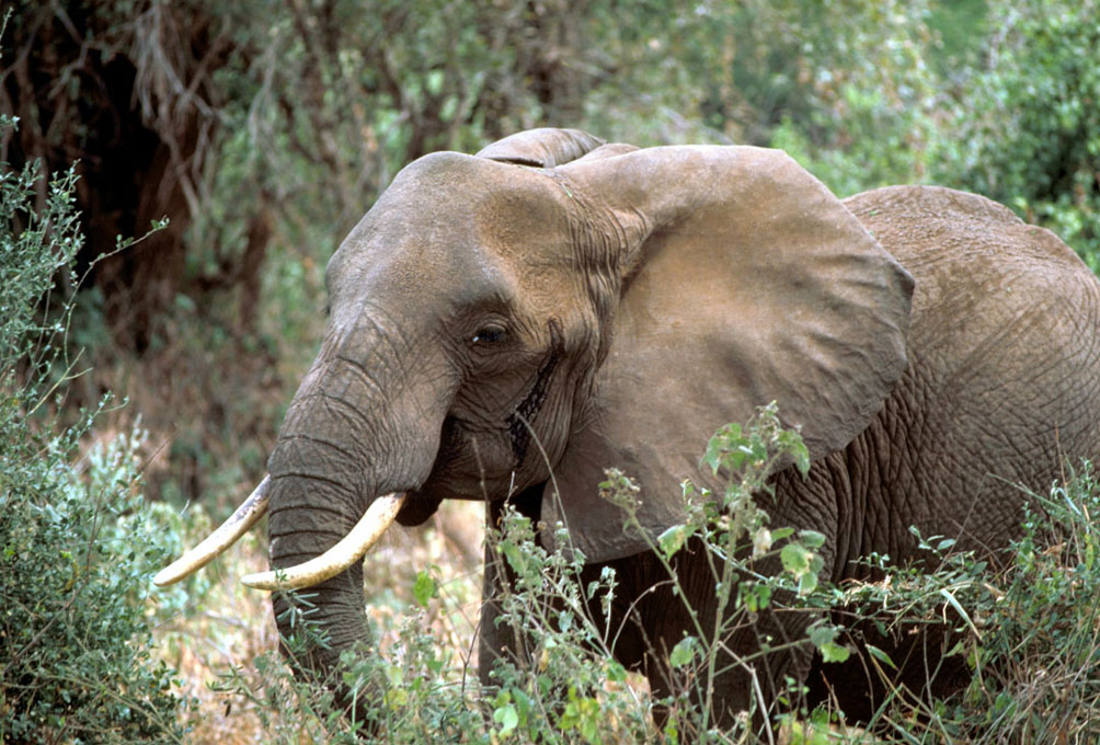 African elephant (Loxodonta africana) in Tanzania